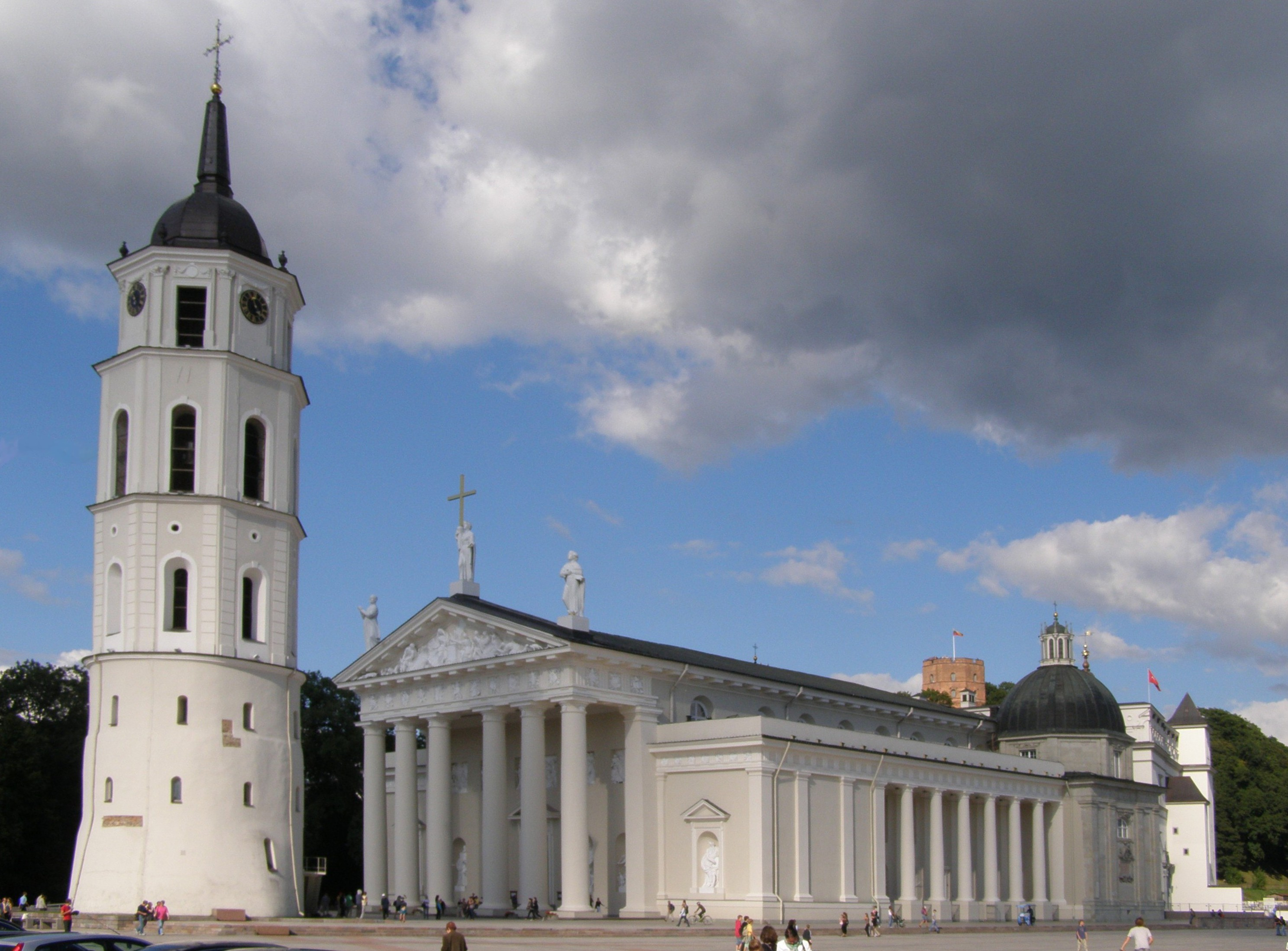 Vilnius Cathedral.